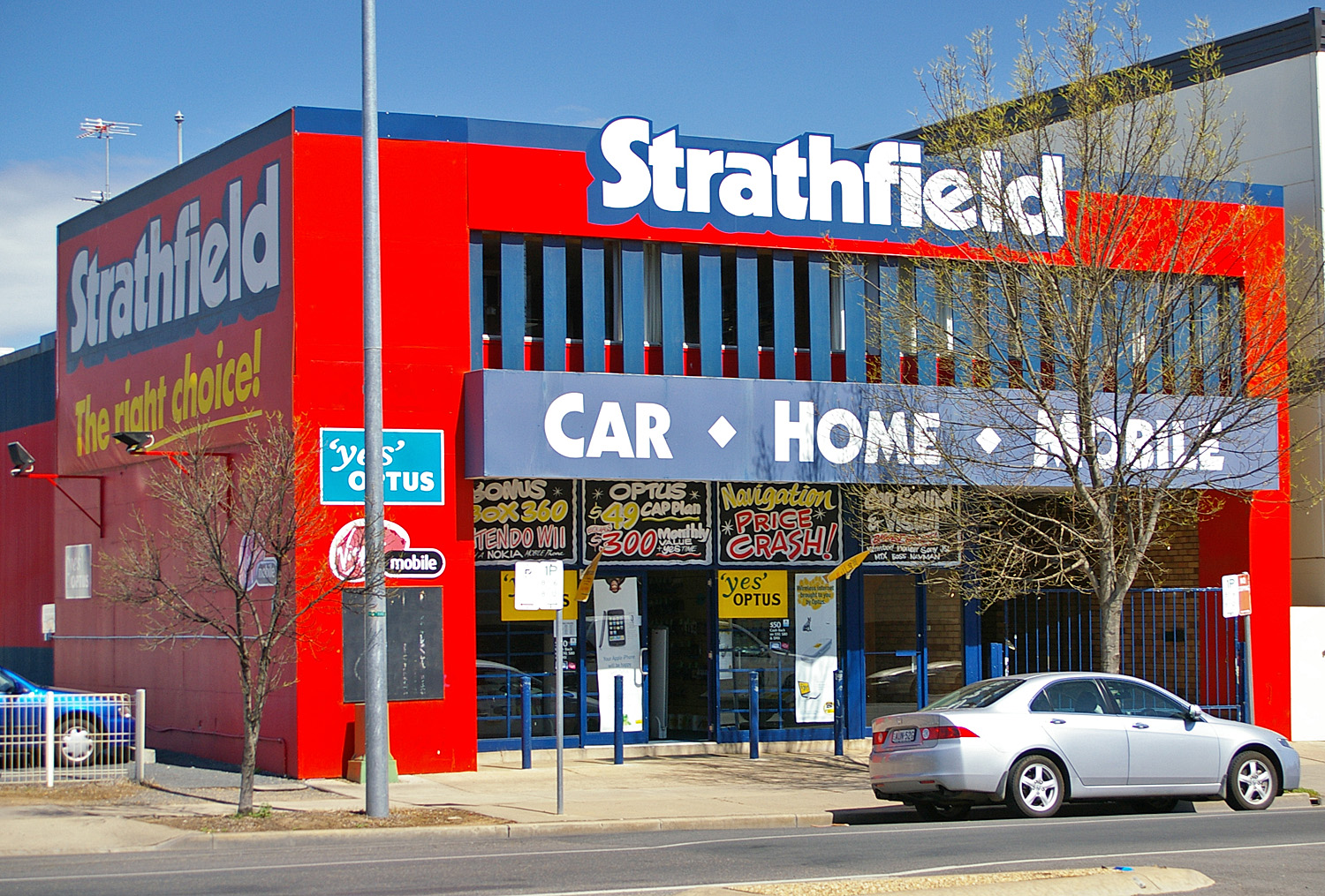 Strathfield store in Wagga Wagga, New South Wales